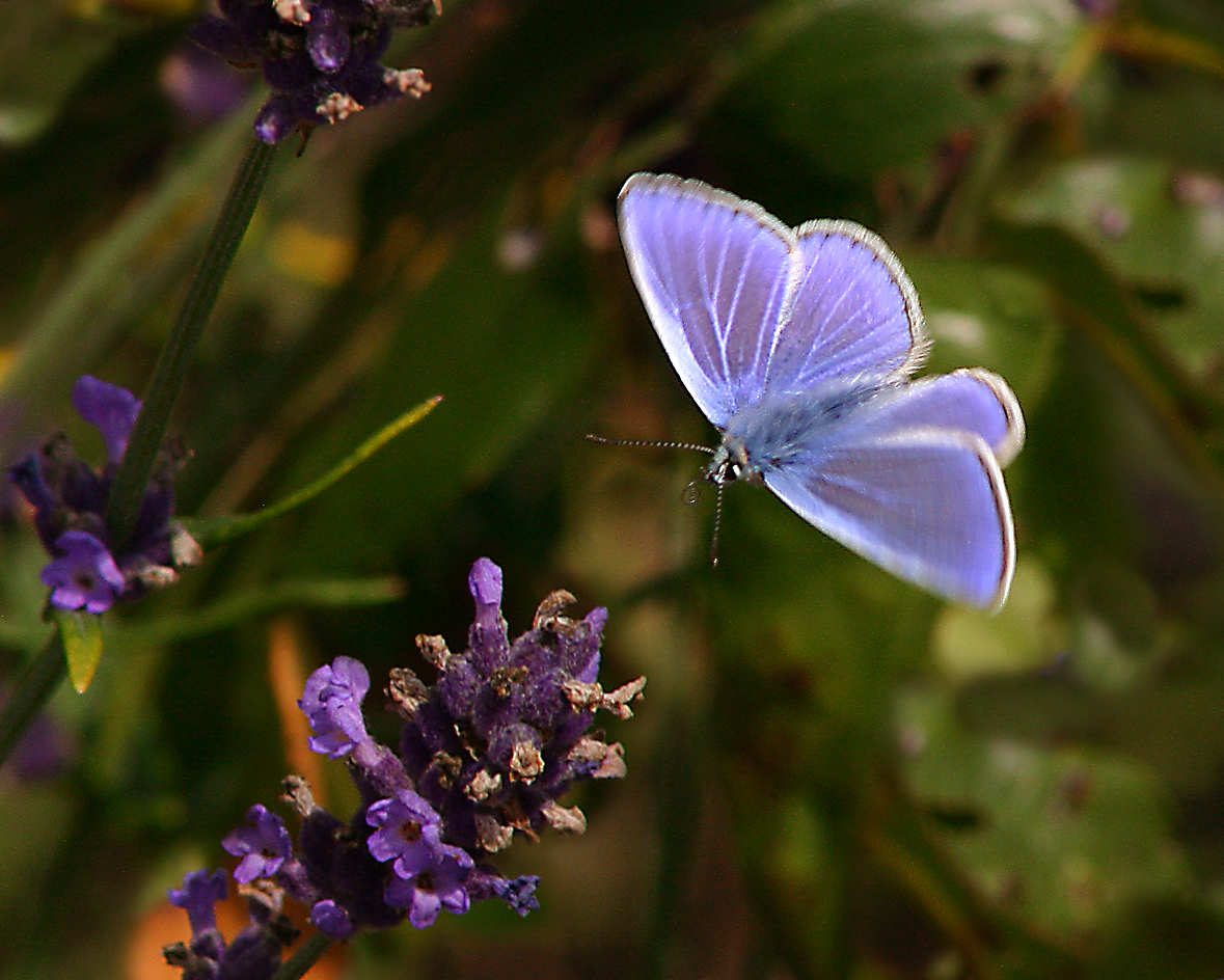 Common blue (Polyommatus icarus) in flight, Randers, Denmark